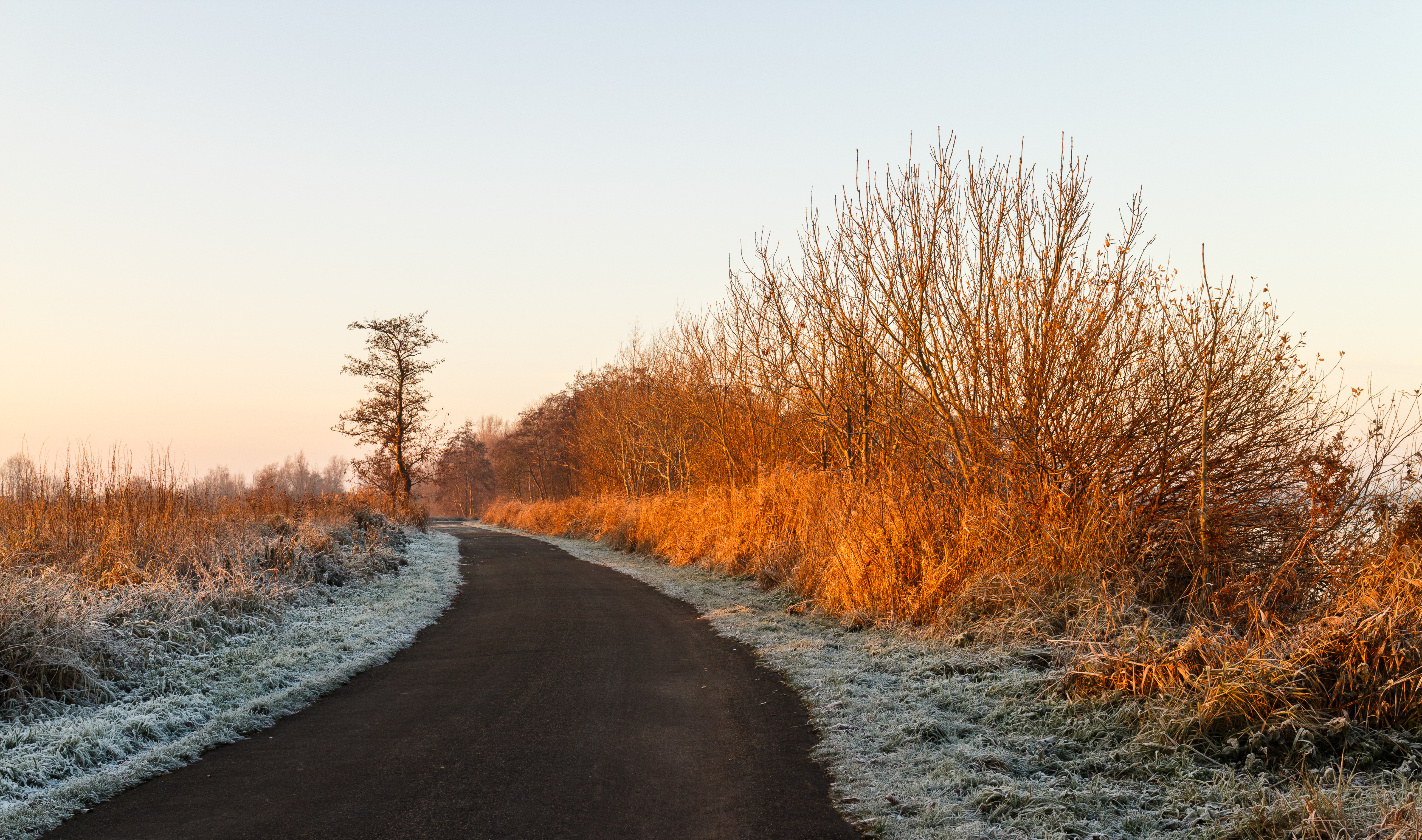 First sunbeams sweep over a winter landscape. Path between Put van Nederhorst and Langweerderwielen. Location, Langweerderwielen (Langwarder Wielen) and surroundings, De Friese Meren, Friesland, Netherlands.